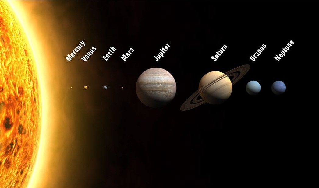 Image showing the order and names of planets in the Solar System.